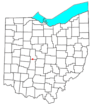 Locator map of the unincorporated community of Chuckery in Union County, Ohio, United States.